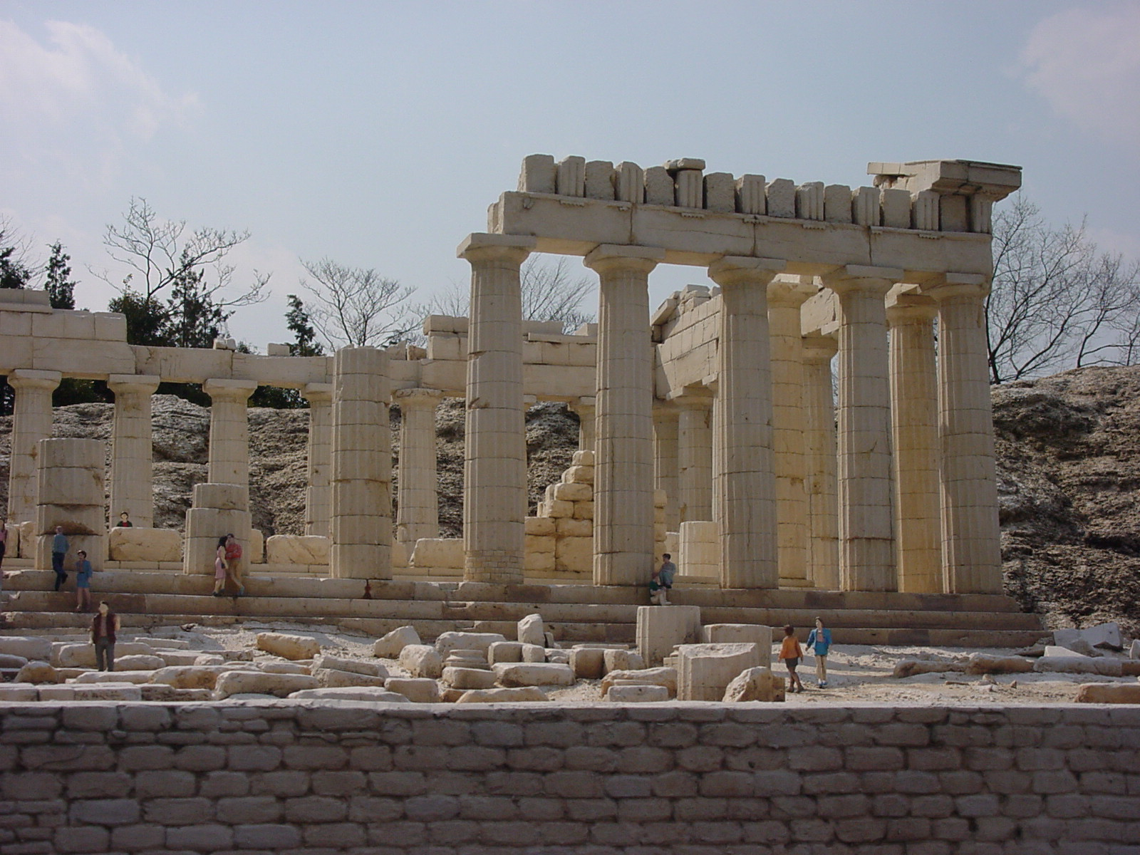 1:25 scale miniature of the Parthenon at Tobu World Square